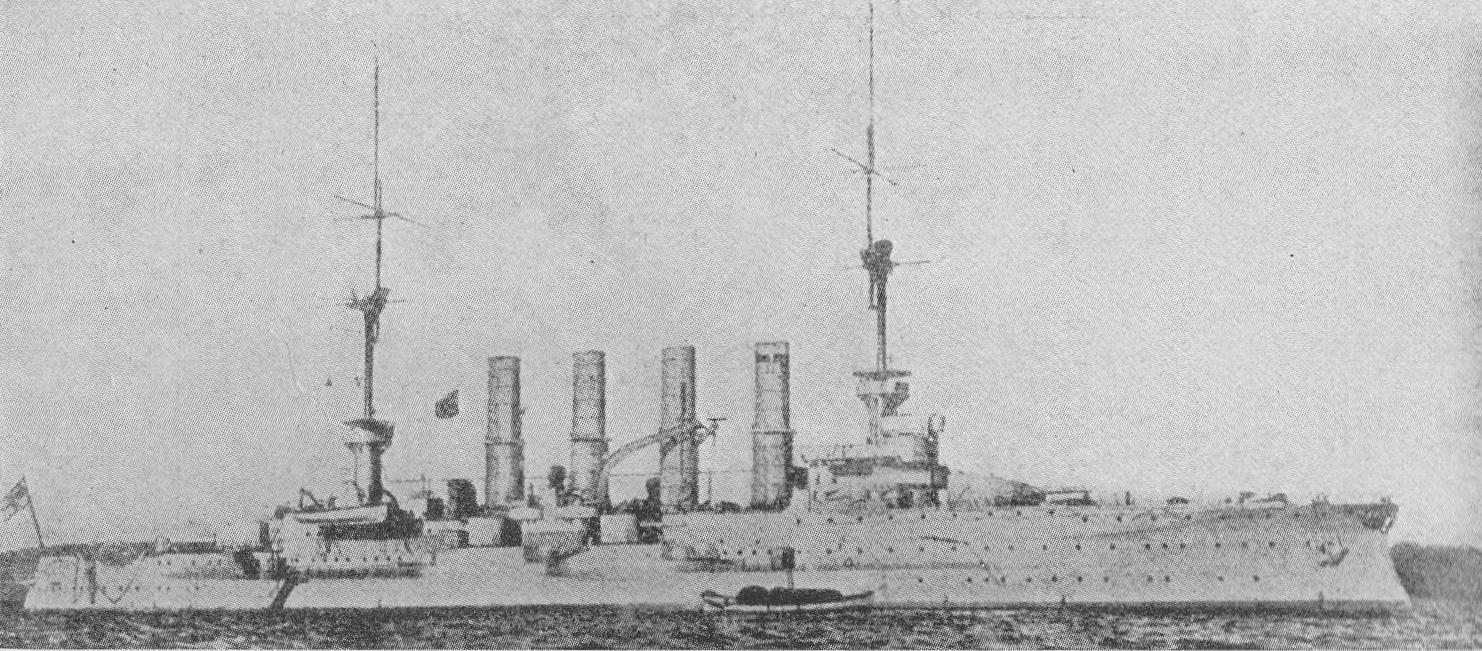 German armored cruiser Roon